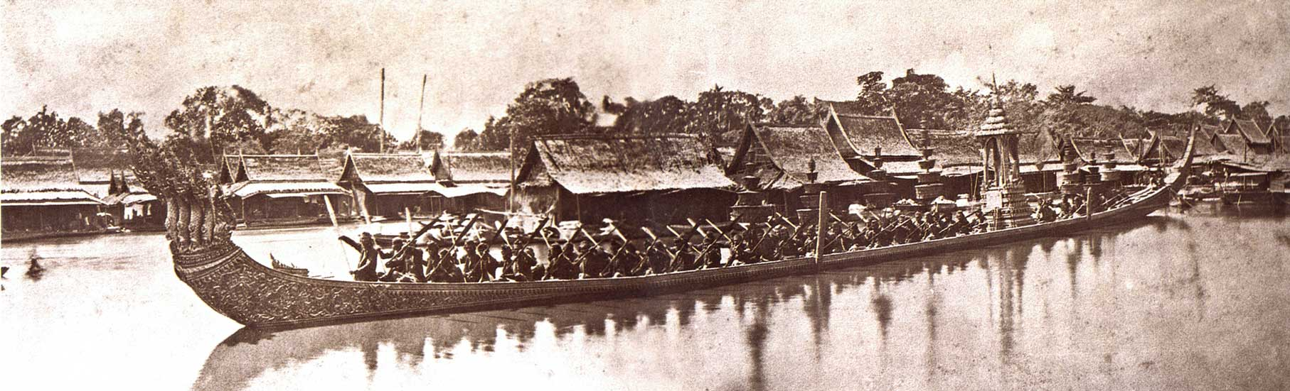 A Royal Barge (1865), BOSCH Telecom Inside Guide to Bangkok (1995), purchased & donated by Rong Dong, digitally mastered by user:kosigrim